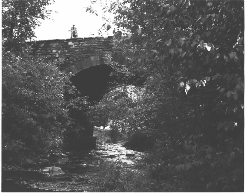 Side of the Bridge in Dreher Township, which carries Legislative Route 171 over Haags Mill Creek in Dreher Township, Wayne County, Pennsylvania, United States. Built in 1934, the bridge is listed on the National Register of Historic Places.